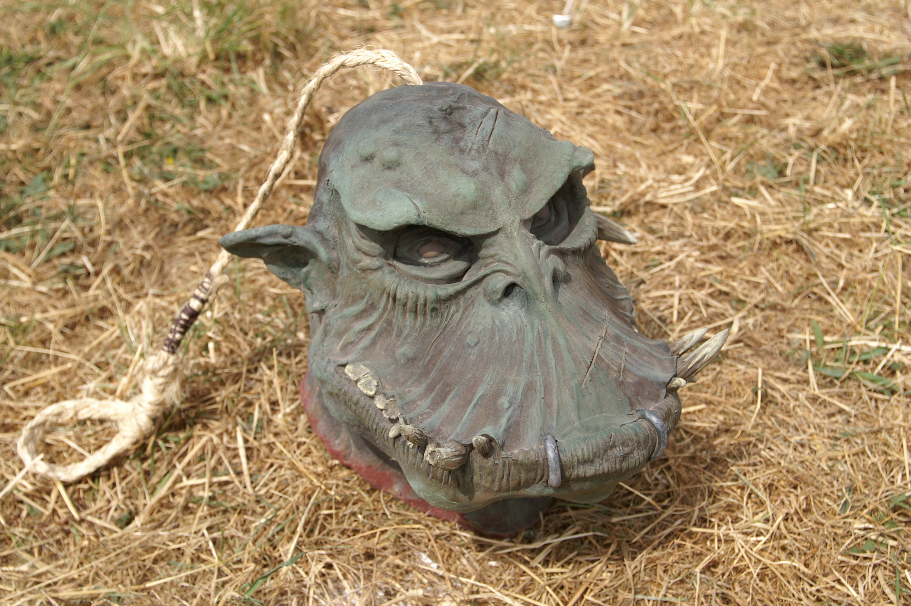 Troll head used as a ball during trollball game.